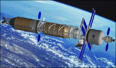 Artist's concept of mars transfer vehicle in LEO.